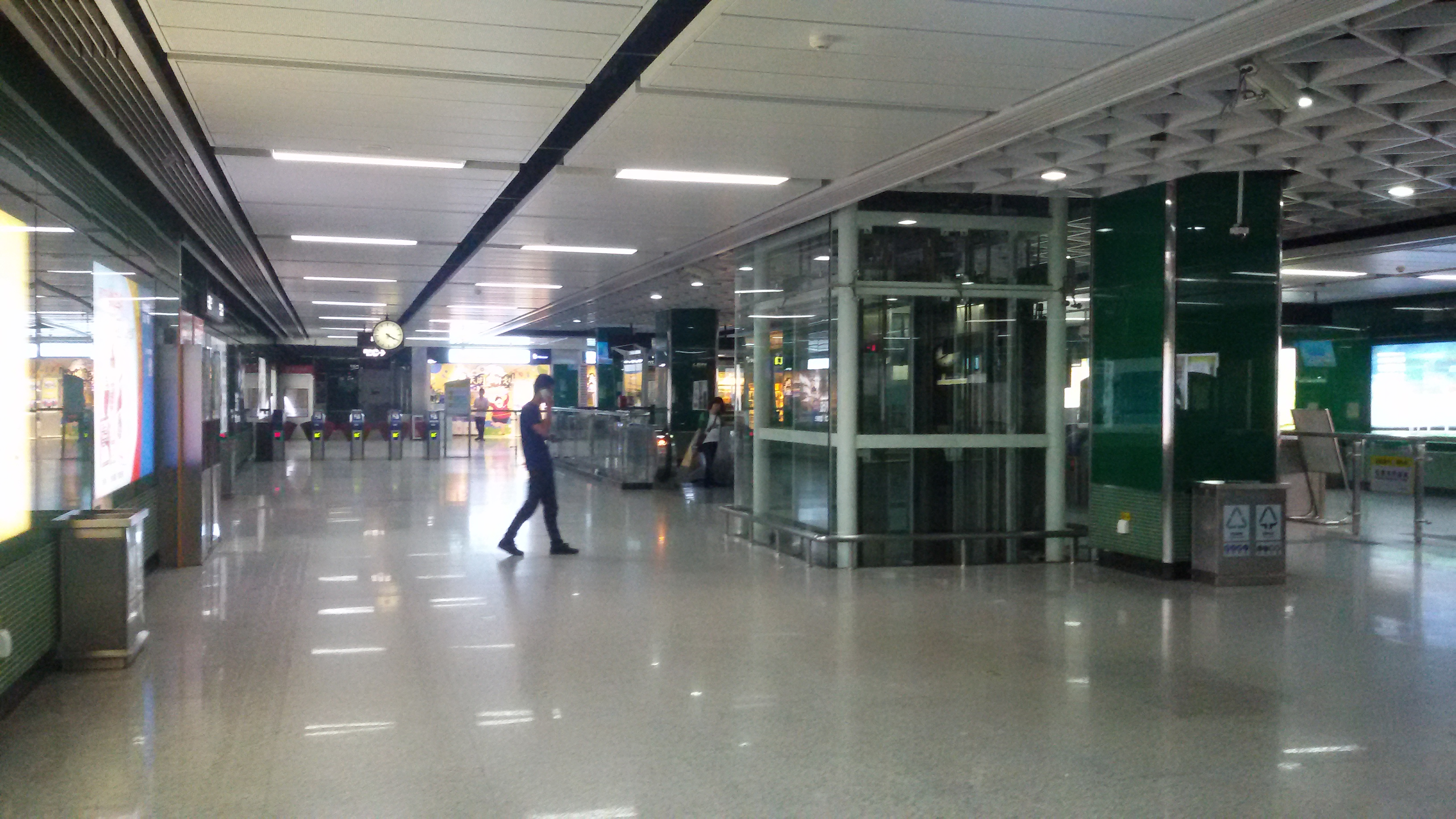 Station Concourse for Sanxi Station in Guangzhou Metro.